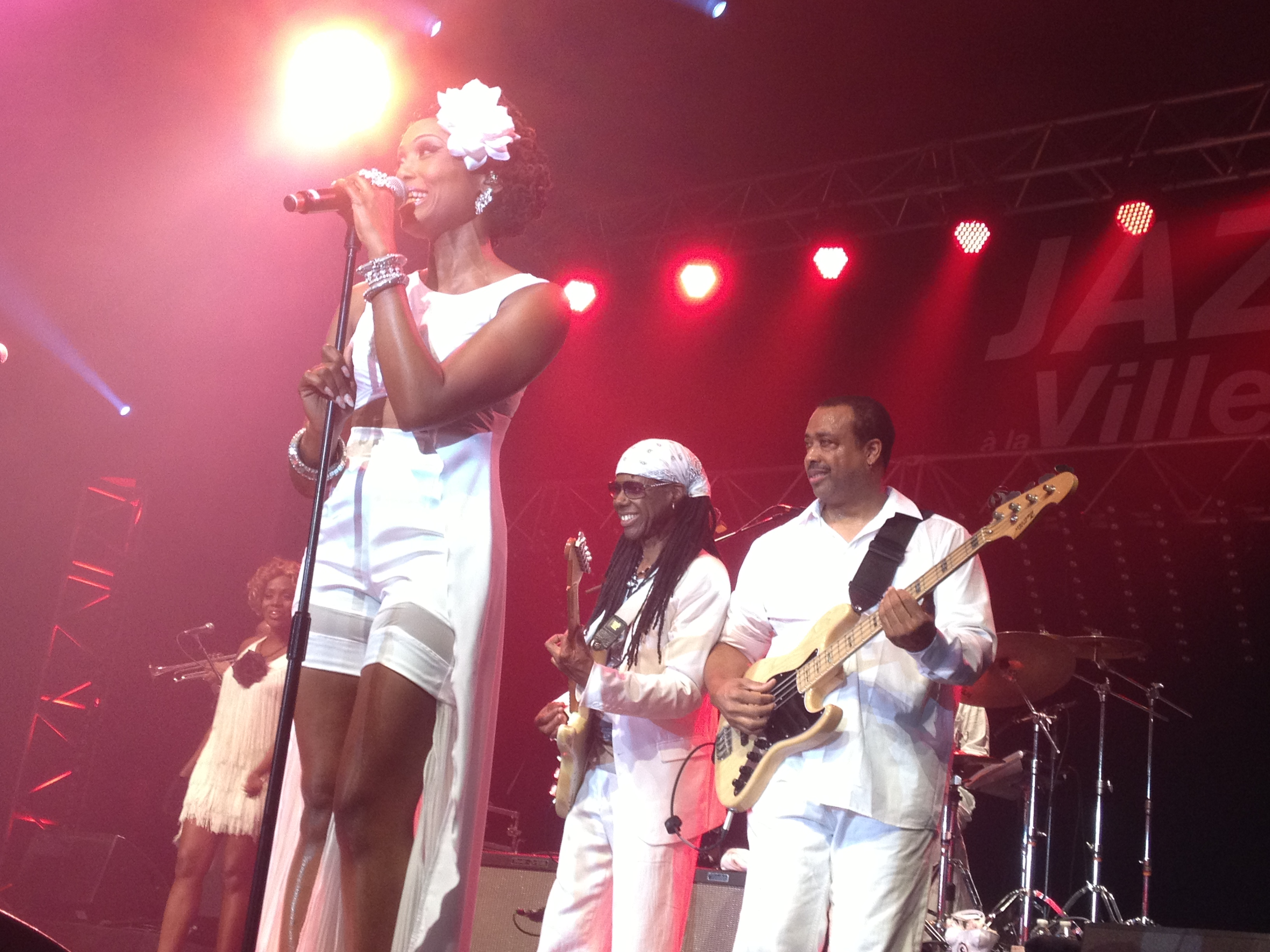 Chic on Stage in Paris, September 10th 2013